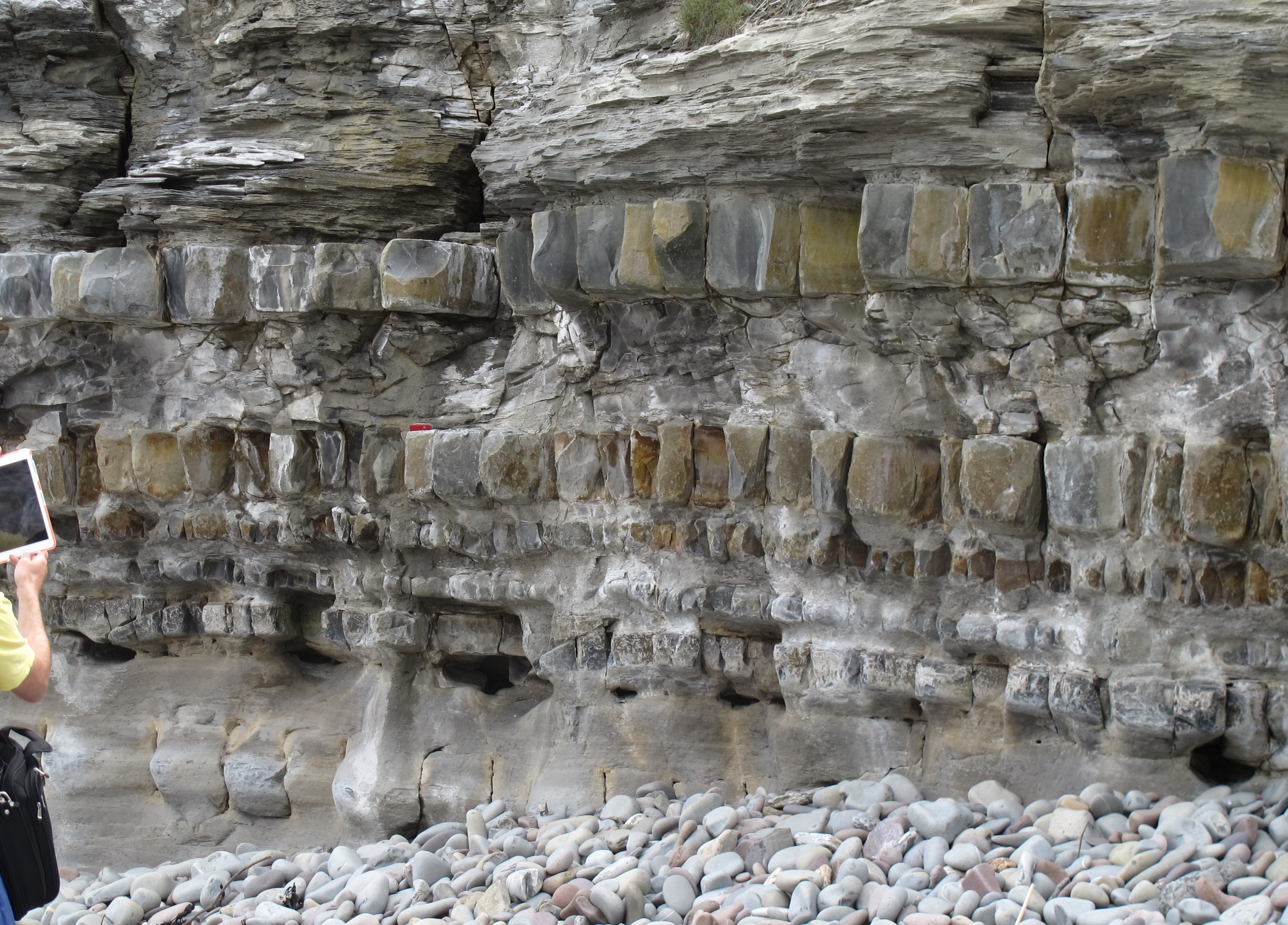 Jurassic limestone layers at Lilstock Bay, Somerset, demonstrating that thinner beds have closer joint spacing than thicker beds